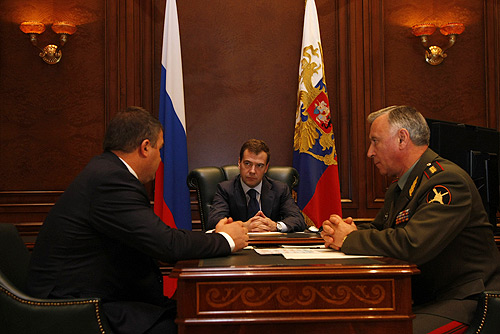 GORKI, MOSCOW REGION. With Defence Minister Anatoly Serdyukov (on the left) and Chief of Staff of the Russian Armed Forces and First Deputy Minister of Defence Nikolai Makarov.